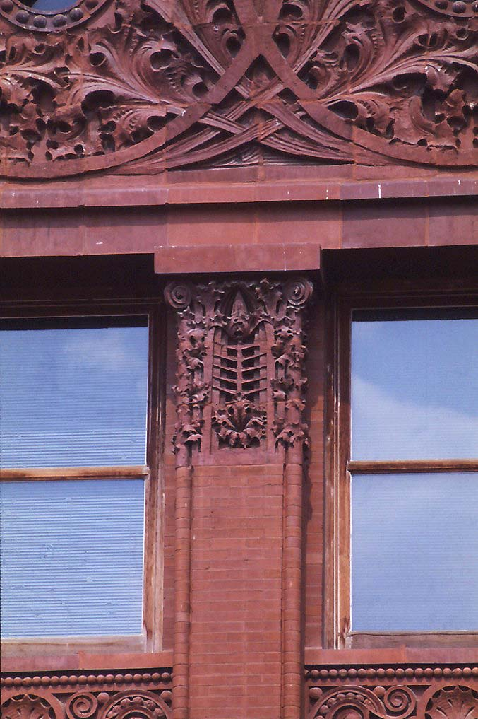 Details from Louis Sullivan's Wainwright Building In St. Louis, Missouri, USA